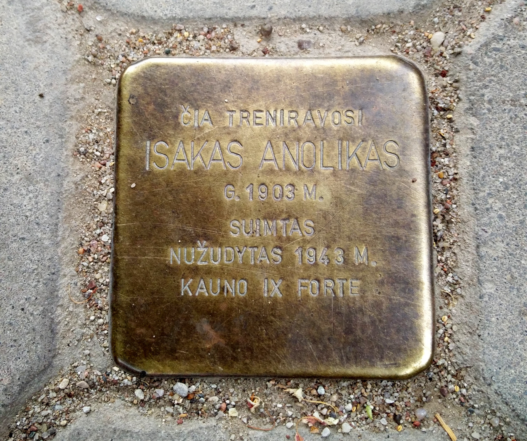 Memorial pavement stone dedicated to Isakas Anolikas in Kaunas (close to where Laisvės avenue merge into Trakai str.)